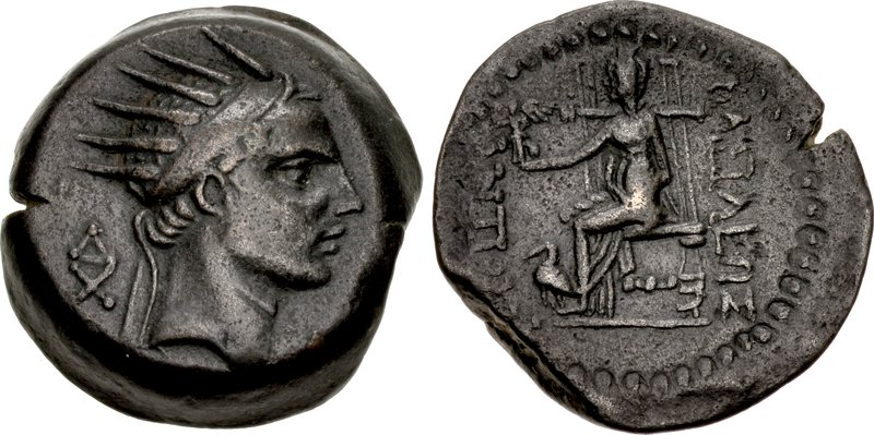 Triton XXII, Lot: 313. Estimate $750. Sold for $1500. This amount does not include the buyer’s fee. SELEUKID EMPIRE. Antiochos IV Epiphanes. 175-164 BC. Æ Tetrachalkon (24mm, 15.37 g, 1h). Seleukeia on the Tigris mint. Struck circa 173/2–164 BC. Radiate and diademed head right; monogram (mark of value) to left / BAΣIΛEΩΣ ANTIO[XOY], goddess, wearing polos and holding Nike in extended right hand, seated left on throne; at feet to left, bird standing left. SC 1508; ESM p. 272; HGC 9, 635; CSE 982–3. Near EF, even dark brown surfaces. Exceptional for issue. From the MNL Collection, purchased from Frank Kovacs, October 2015.